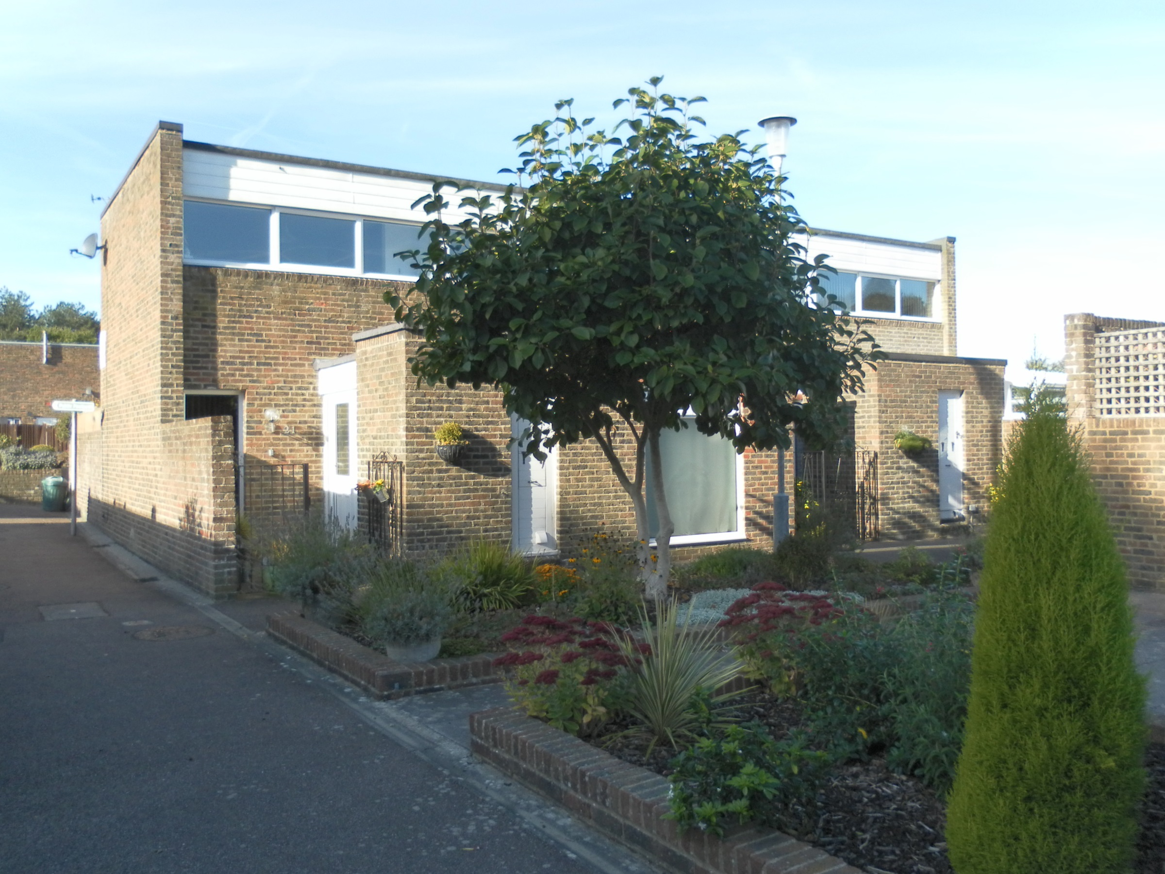 One of the distinctive Phippen Randell Parkes-designed houses in Forestfield, part of the Forestfield and Shrublands Conservation Area, Furnace Green, Crawley, West Sussex, England.